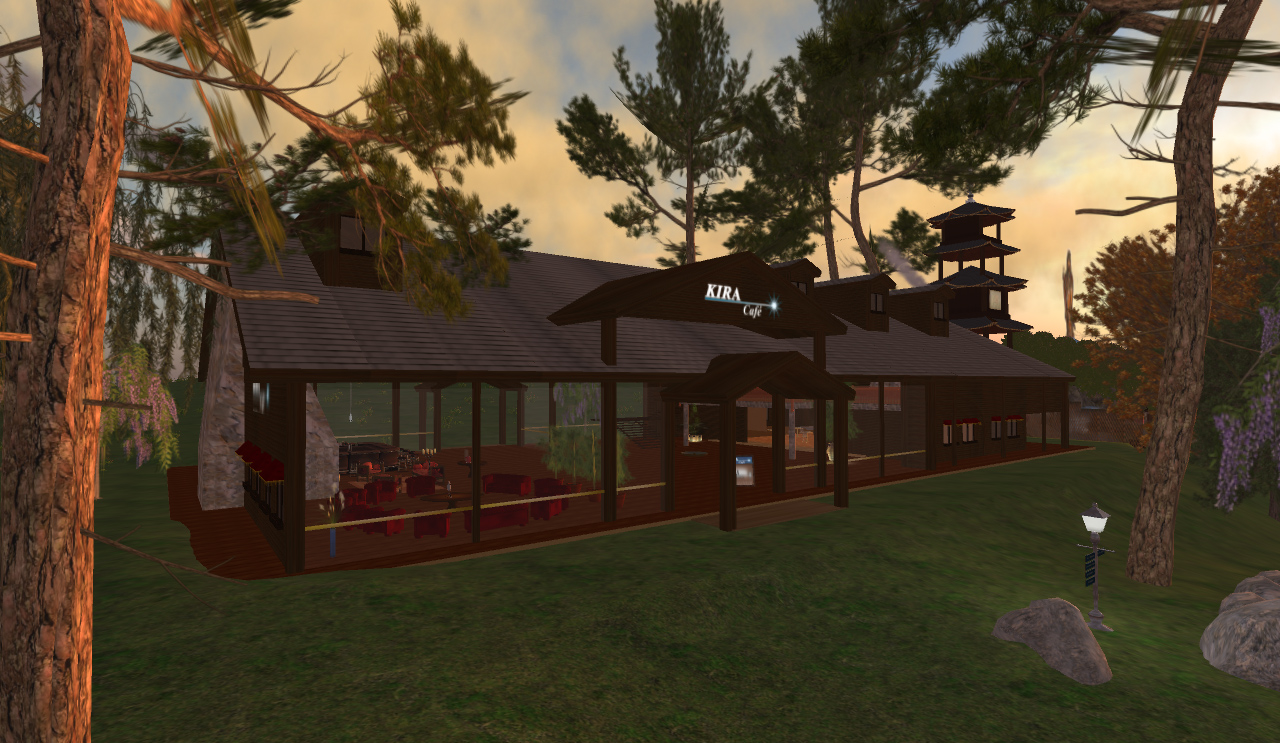 This is the Kira Cafe, north entrance, taken at sunset in the Mieum region of Second Life. The Kira Cafe was established by the Kira Institute.